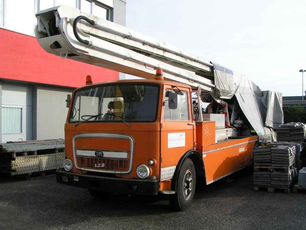 OM 40/100/120/150 truck made by 1967-1975. (Löschen) (Aktuell) 13:34, 28. Okt 2005 . . Bleichi (Diskussion) . . 1024 x 768 (109818 Byte) (* Beschreibung: OM * Quelle/Fotograf: Richard Bleichmann * Lizenz: GNU-FDL )